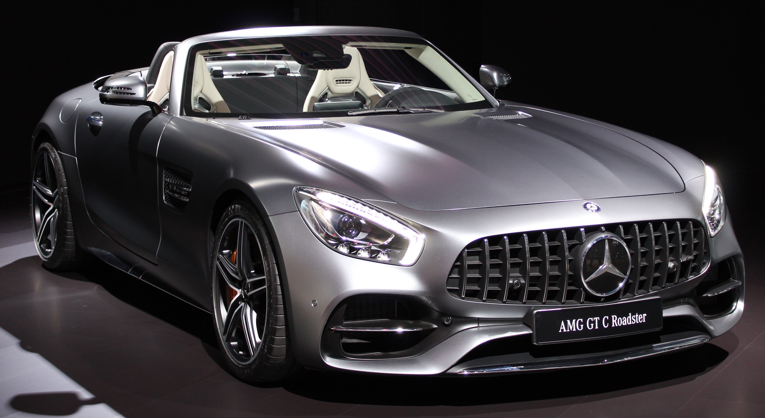 Mercedes-Benz AMG GT C Roadster